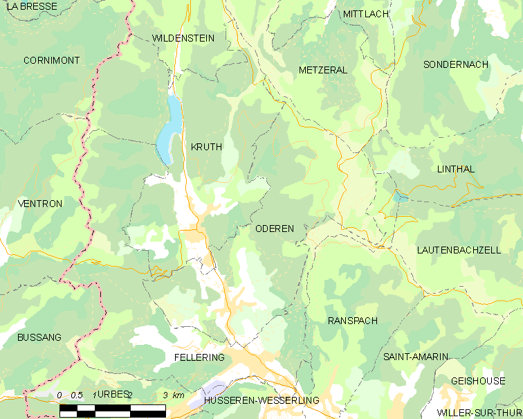 Map of French municipality